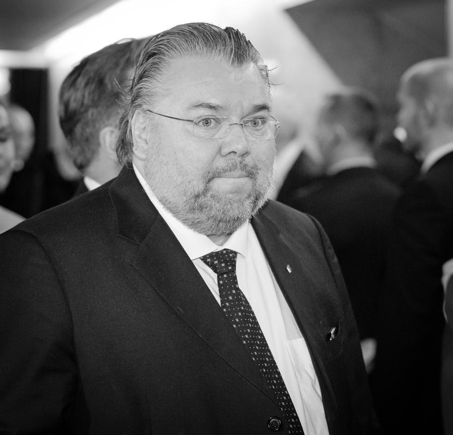 Morten Wold at Governor Øystein Olsen's annual address in February 2018